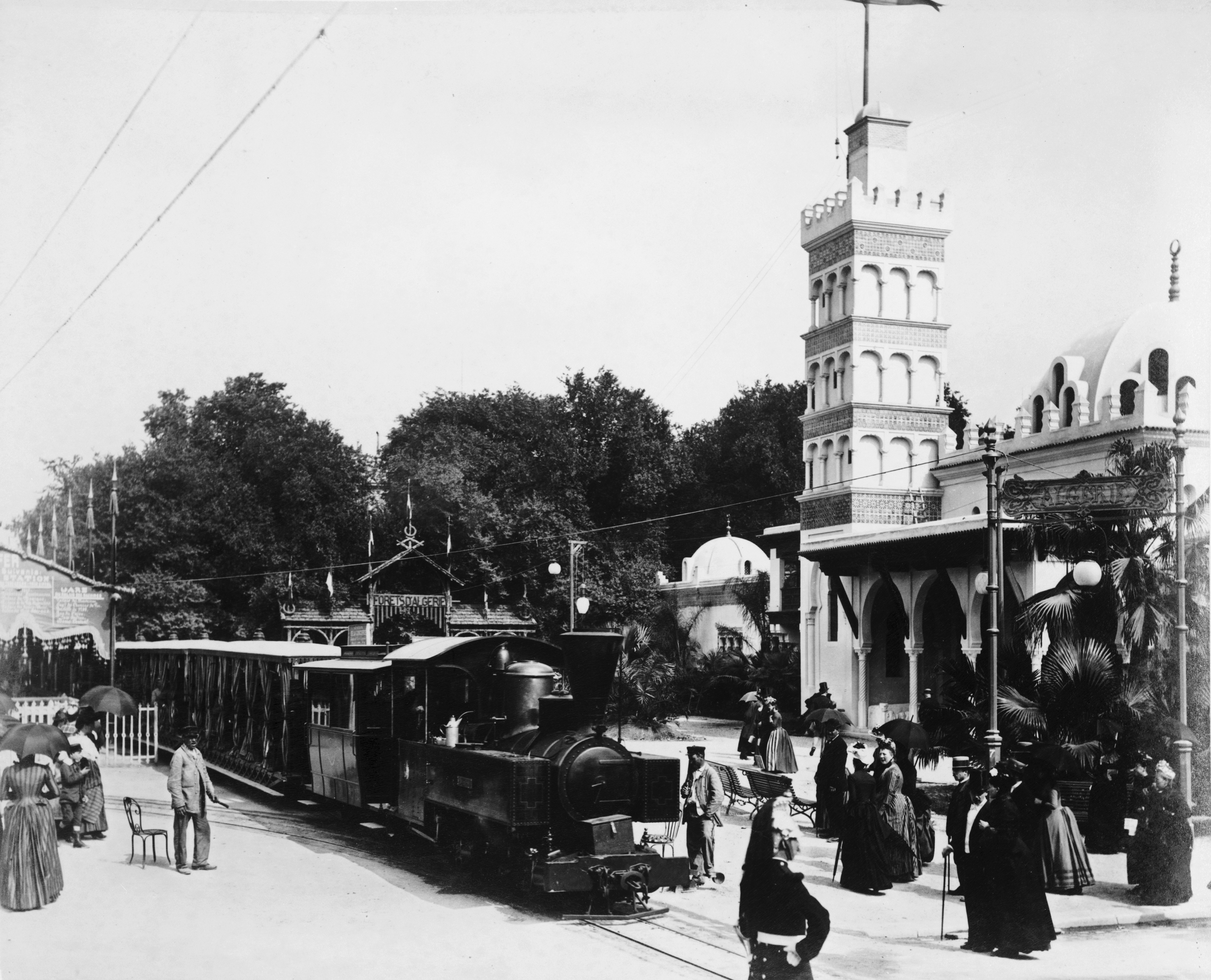 Passenger train in front of Pavilion of Algeria on L'Esplanade des Invalides, Paris Exposition, 1889